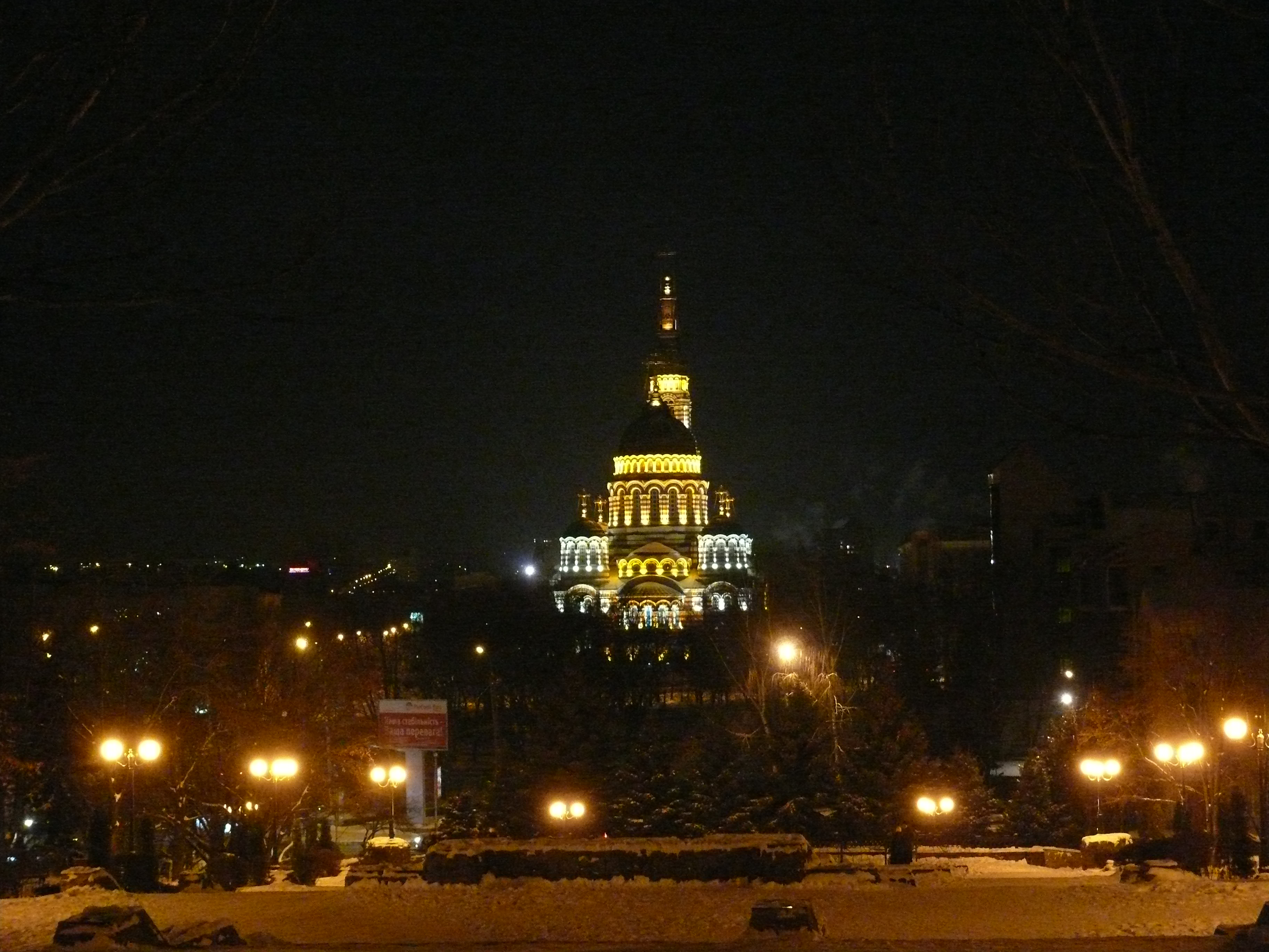 Blagoveschensky Cathedral in Kharkov in night in winter.